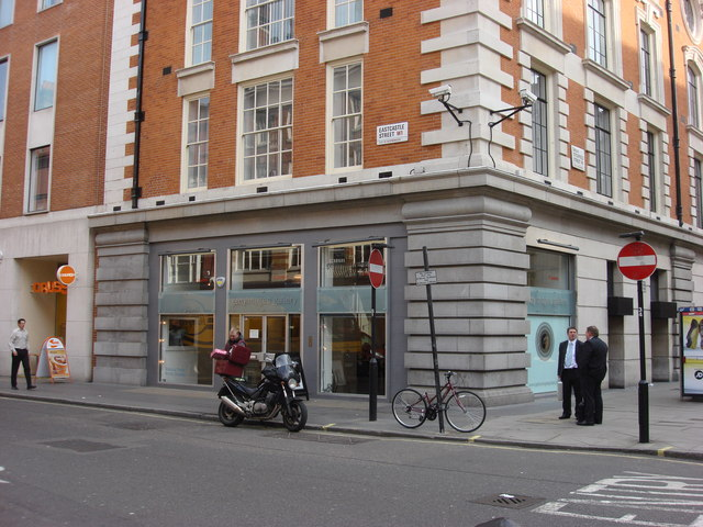 Getty Images Gallery London’s largest independent photographic gallery, located at 46 Eastcastle Street